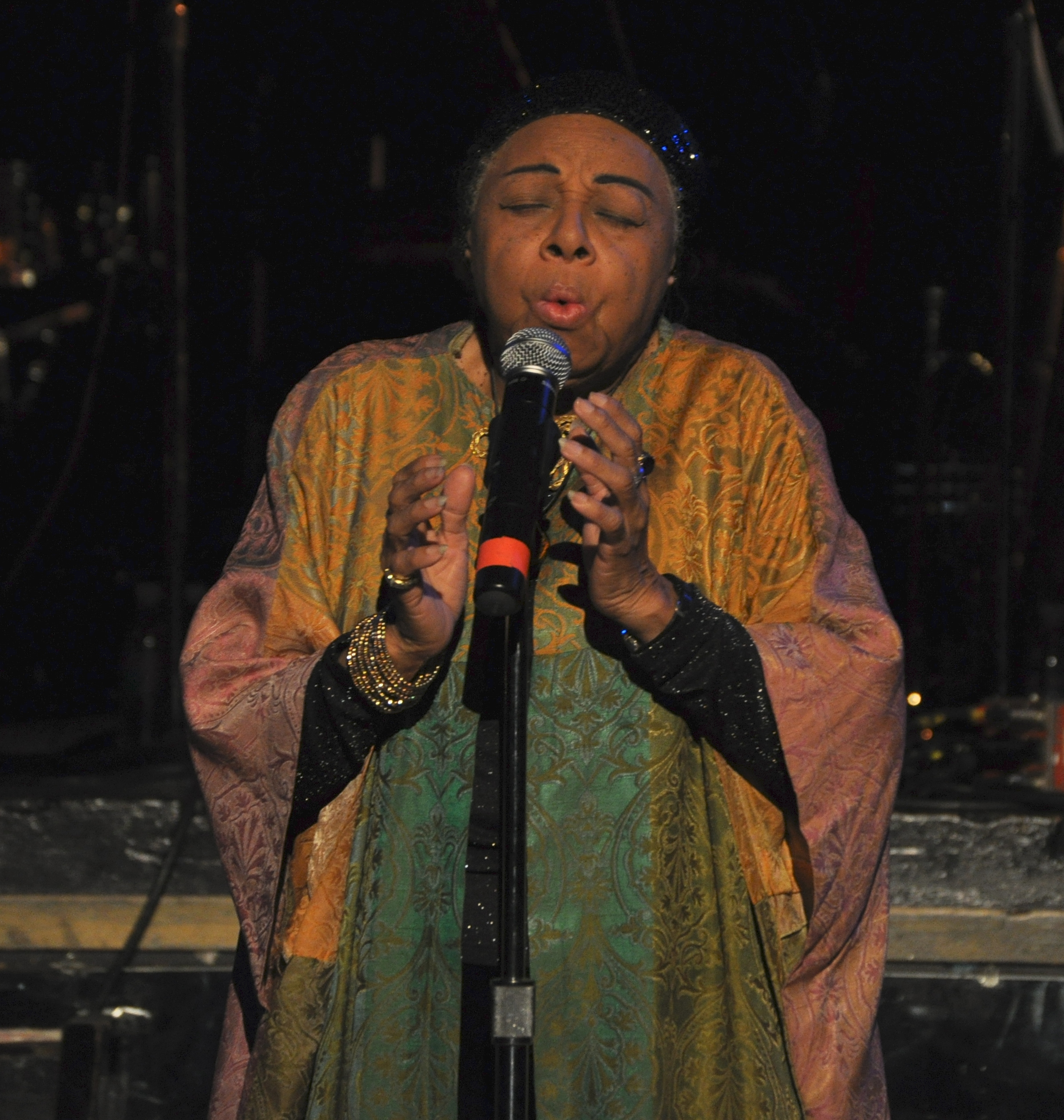 Singer Dawn Hampton appearing at Masters of Lindy Hop and Tap, Century Ballroom, Oddfellows Temple, Pine Street, Capitol Hill, Seattle, Washington, USA. See Dawn Hampton on the site of that event for more about Hampton.